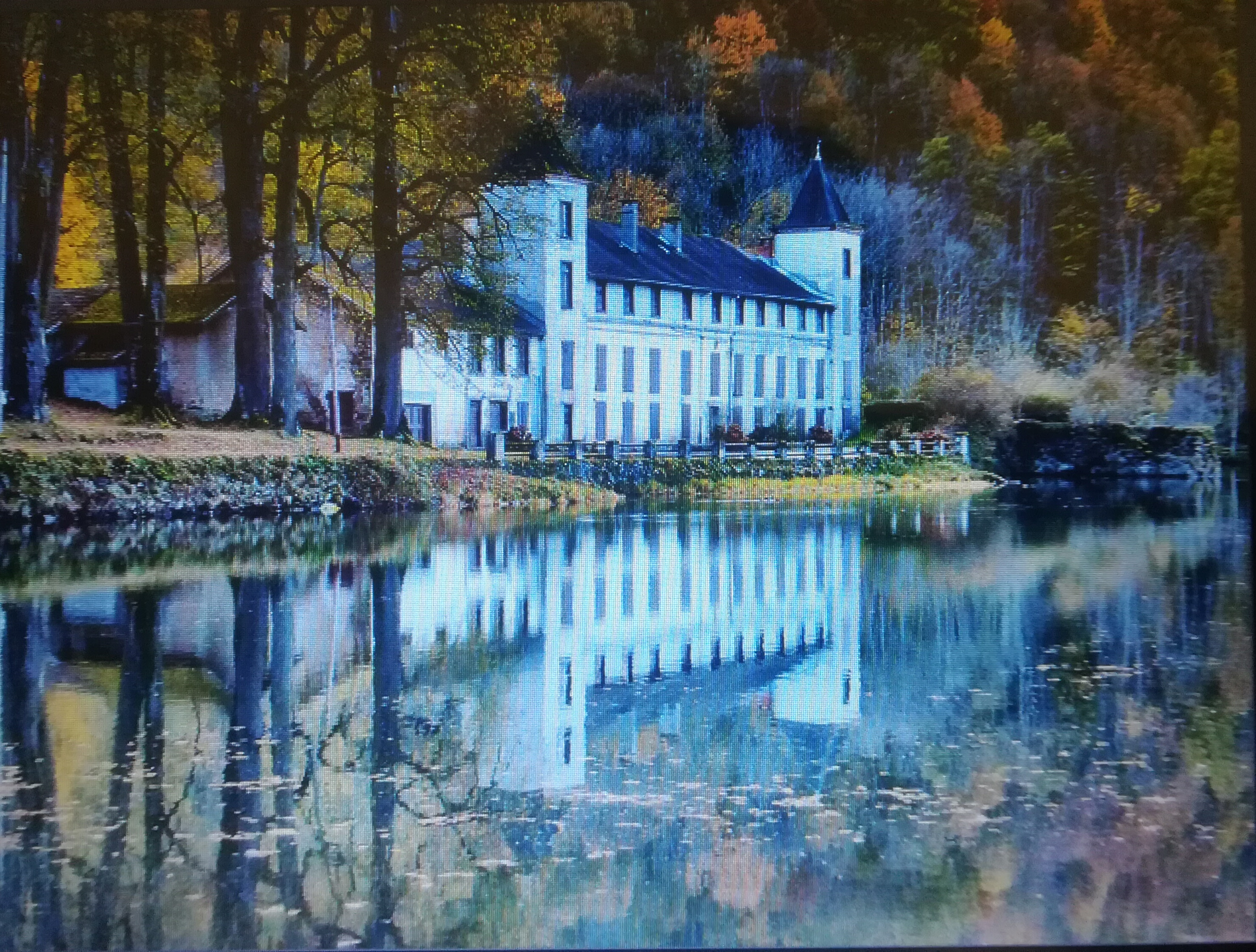 Château d'Orgeix 2